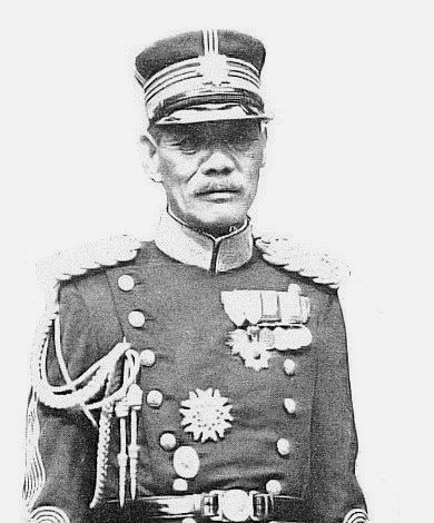 Yoshikatsu Aramaki